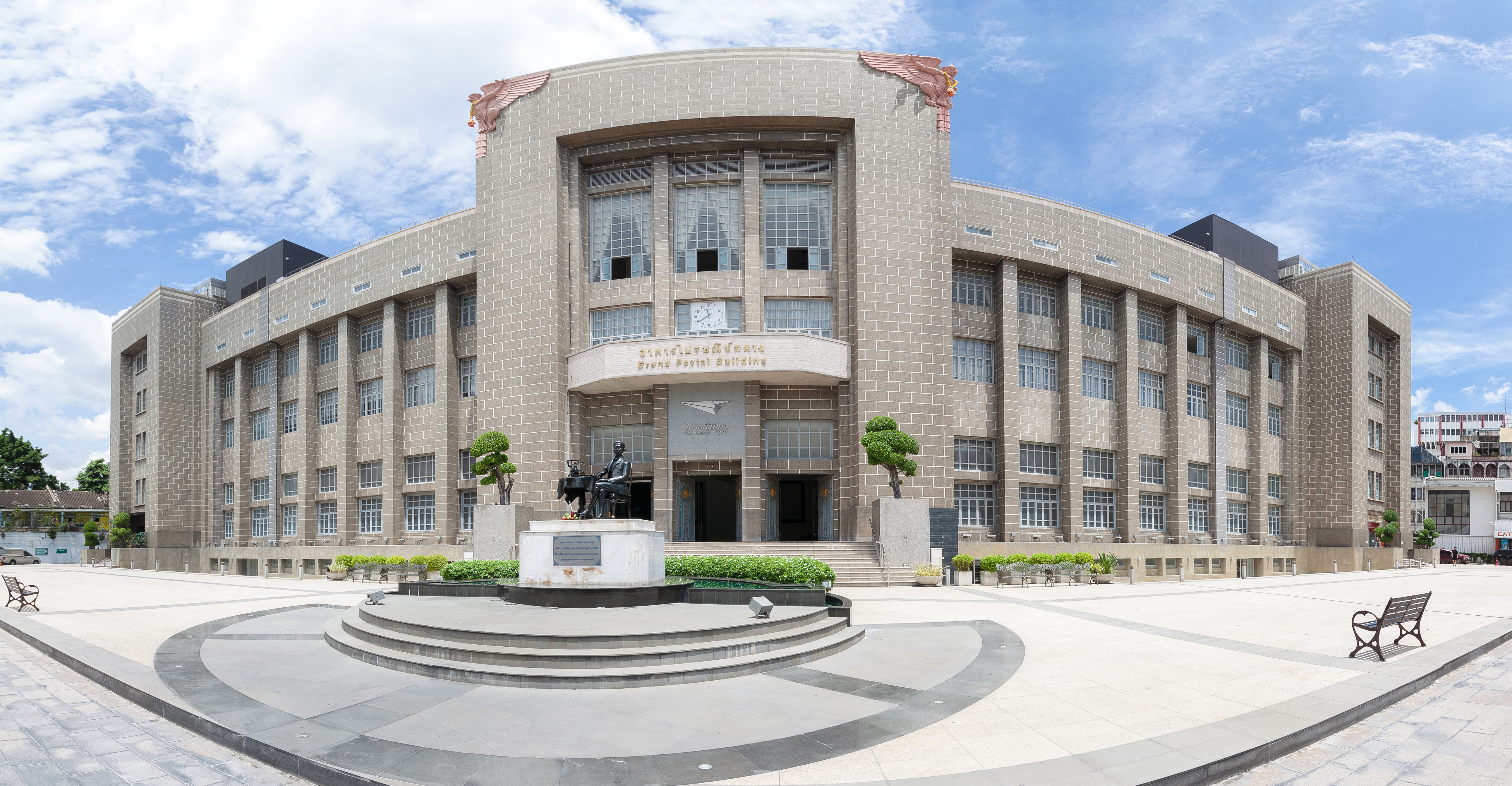 Bangkok General Post Office, Bang Rak, Bangkok, Thailand.